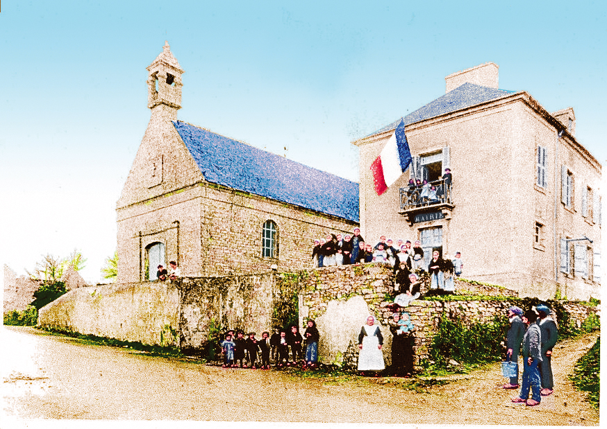 Former City Hall and chapel of the Holy-Cross, Caudan before 1945